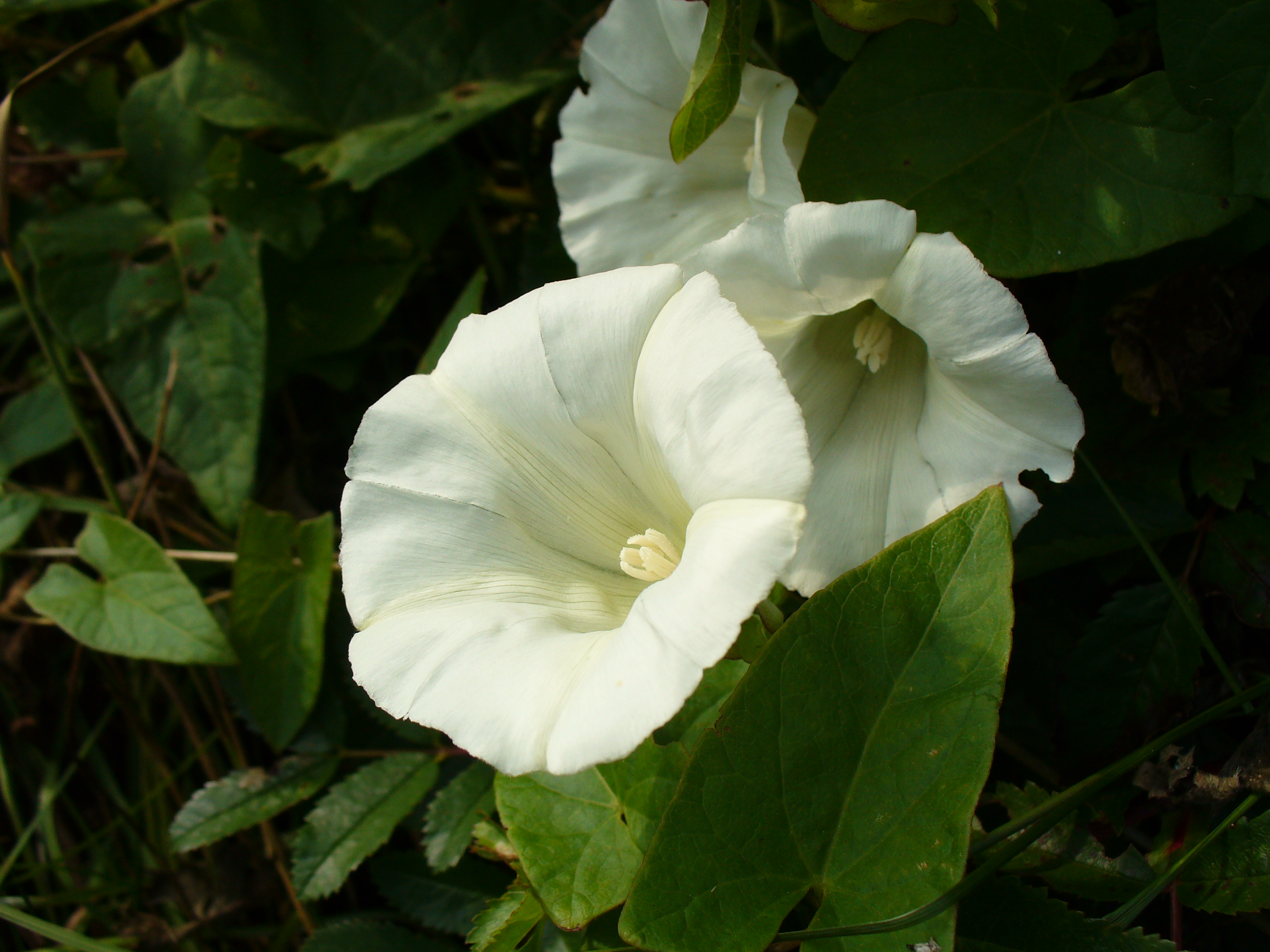 I am the originator of this photo. I hold the copyright. I release it to the public domain. This photo depicts flowers.